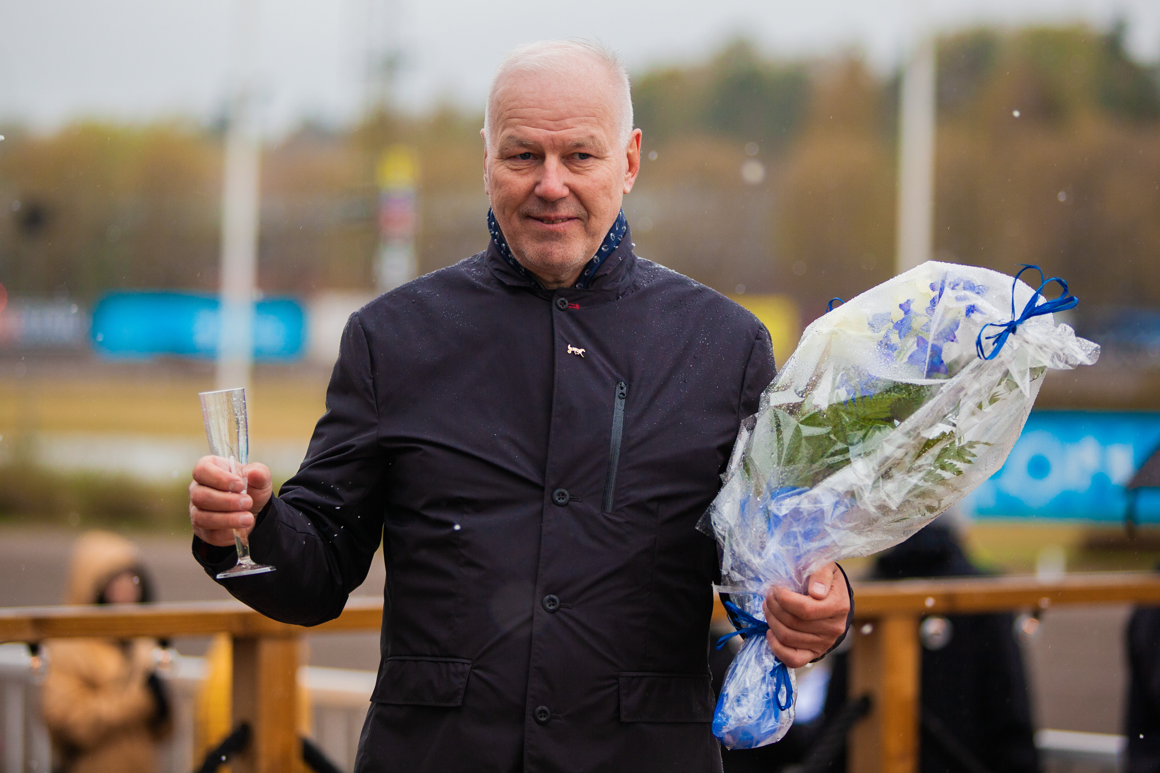 Timo Nurmos